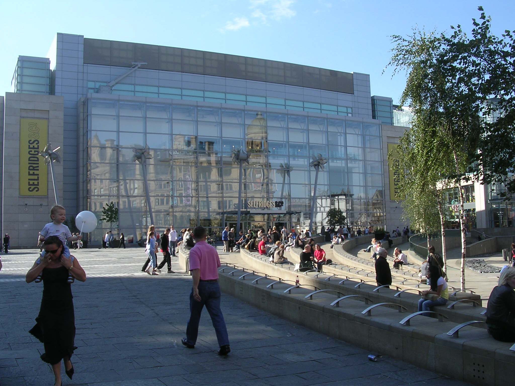 An image of Selfridges in the City of Manchester on Exchange Square, England.